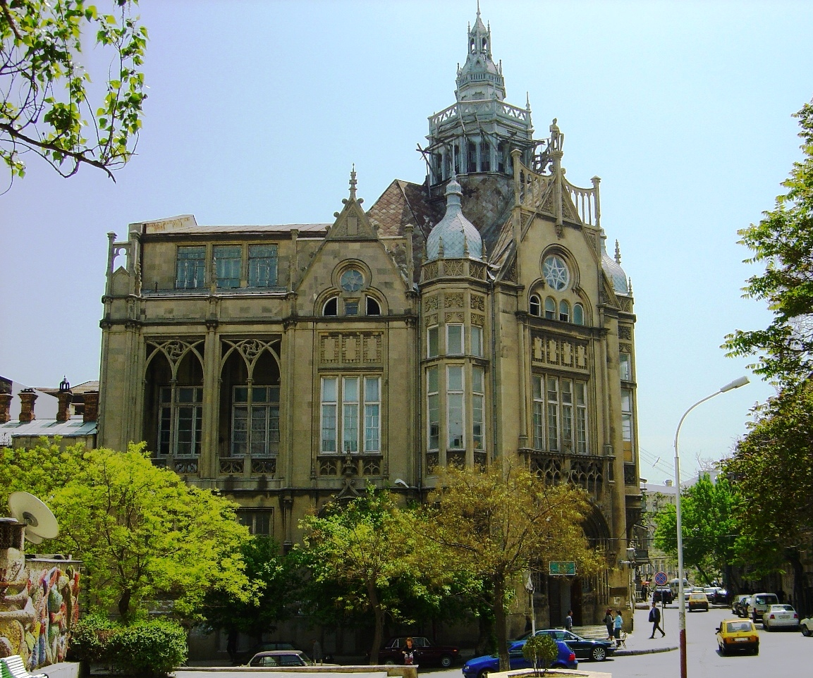 Saadet sarayi building (Wedding Chapel) in Baku, Azerbaijan